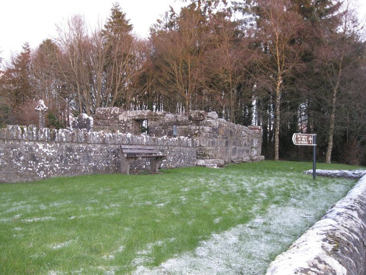 Tradition states that a monastery was founded at Ardagh by St Patrick, and that his nephew, St. Mel (died c.490), was its bishop or abbot. Although there is no historical or archaeological evidence to support it, Mel is regarded as the founder of the see. Ardagh Cathedral was severely damaged by warfare in 1496 and was never restored. There are remains of an eighth or ninth century church at Ardagh, which is known as St. Mel's Cathedral, although it dates from three centuries after the saint's death, and predates the introduction of a diocesan system in Ireland.